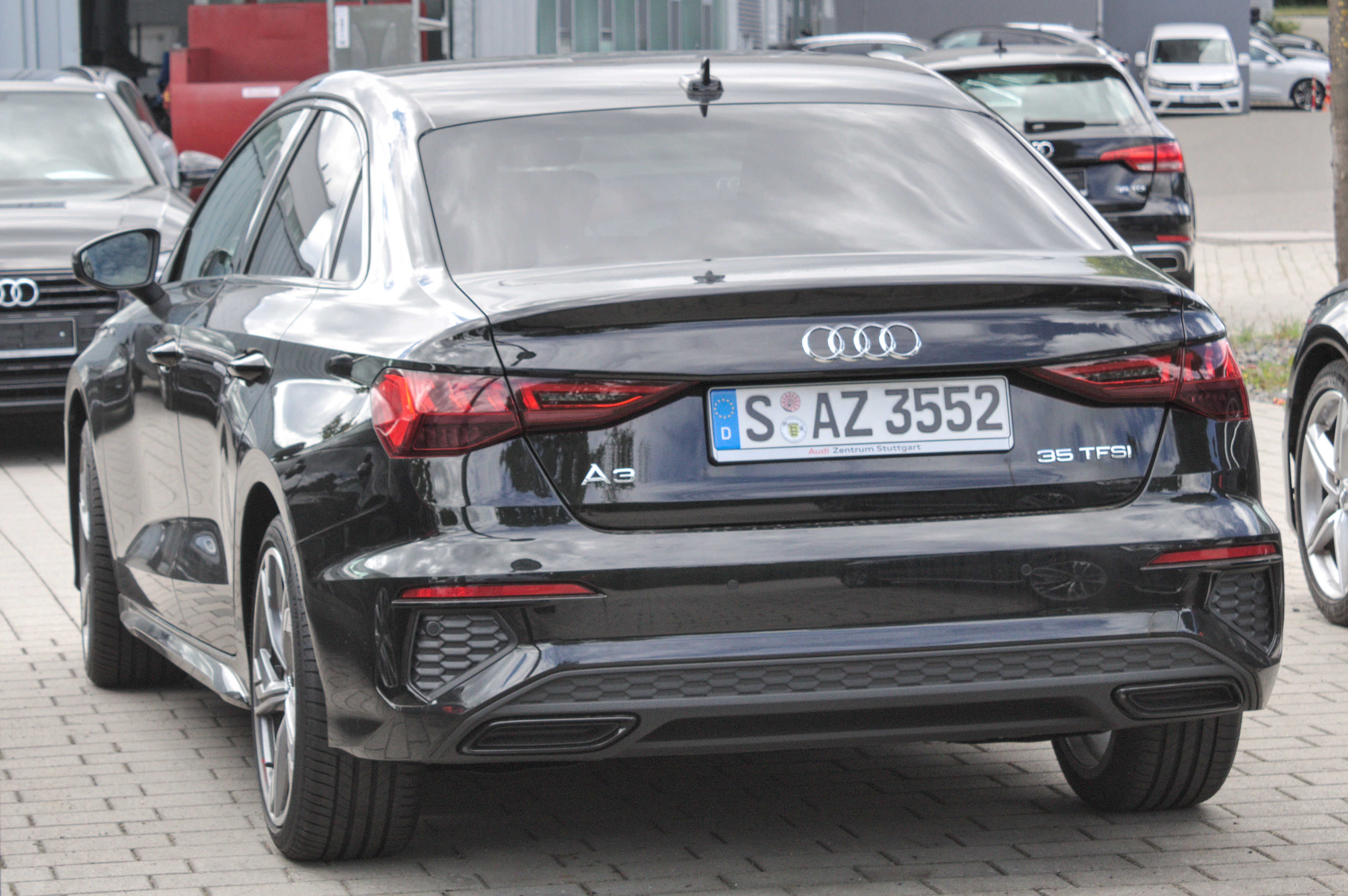 Audi_A3_8Y_Sedan in Stuttgart-Vaihingen